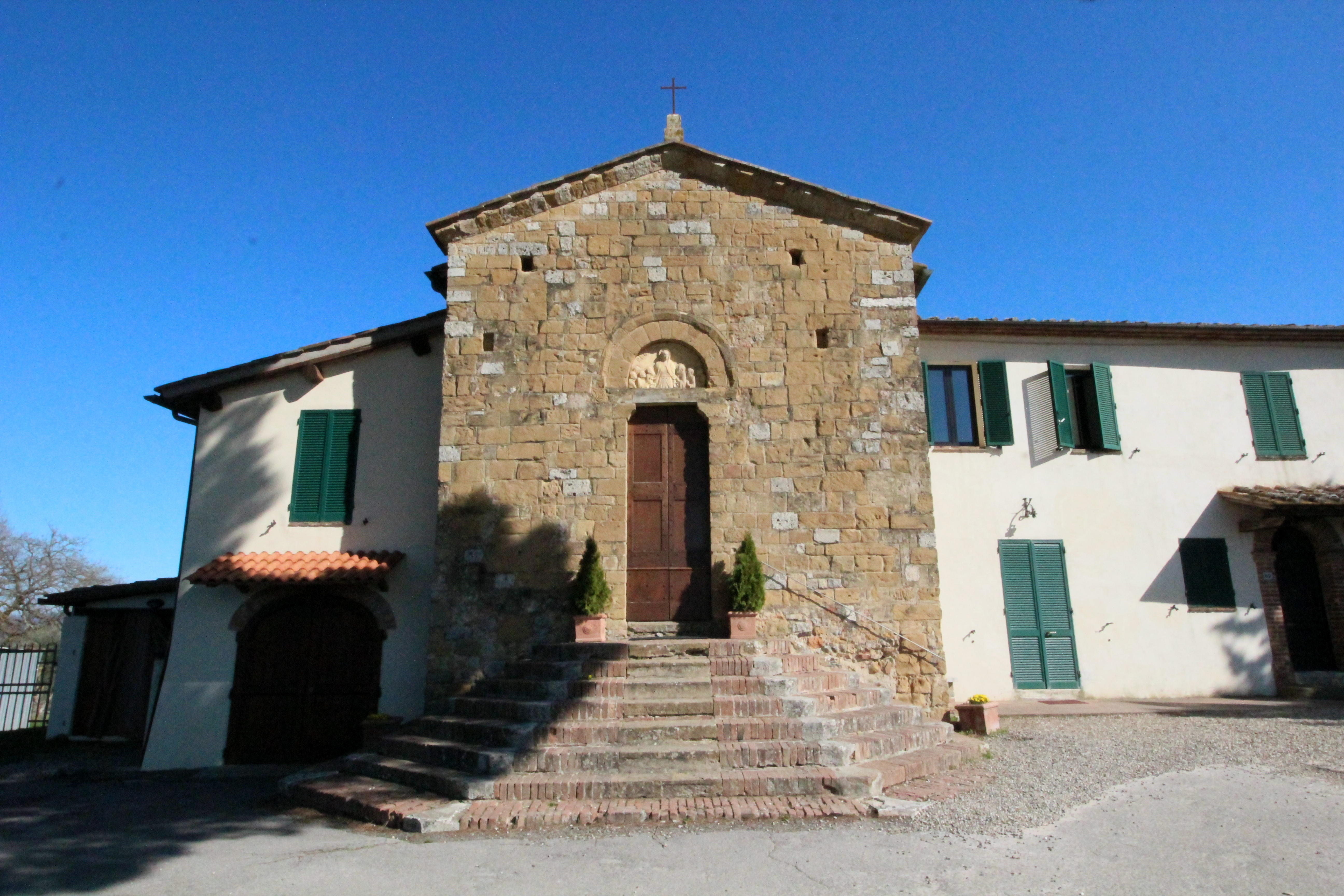 Church Santi Marcellino ed Erasmo, Uopini, hamlet of Monteriggioni, Province of Siena, Tuscany, Italy